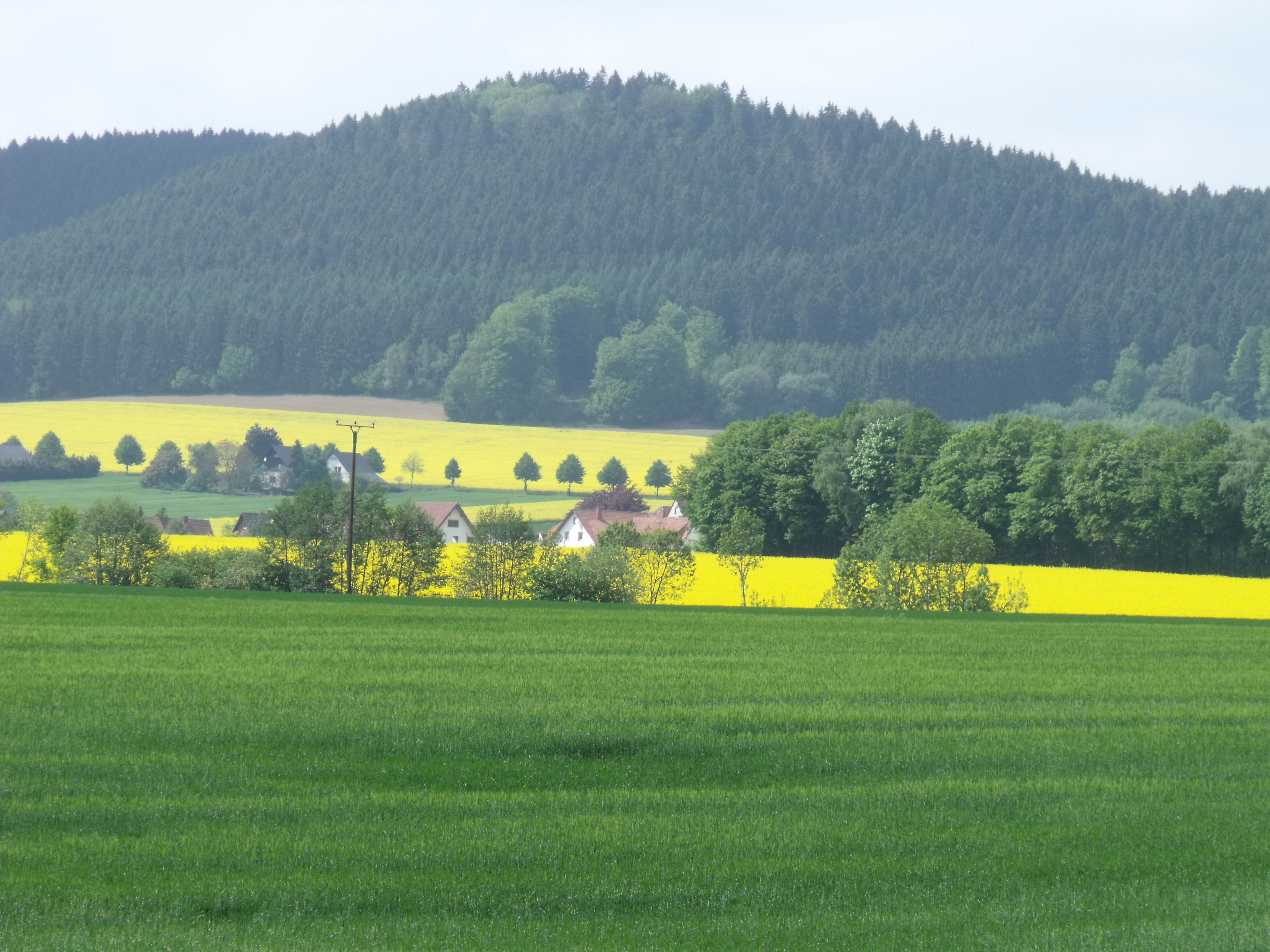 The mountain "Kniebrink" seen from the south direction